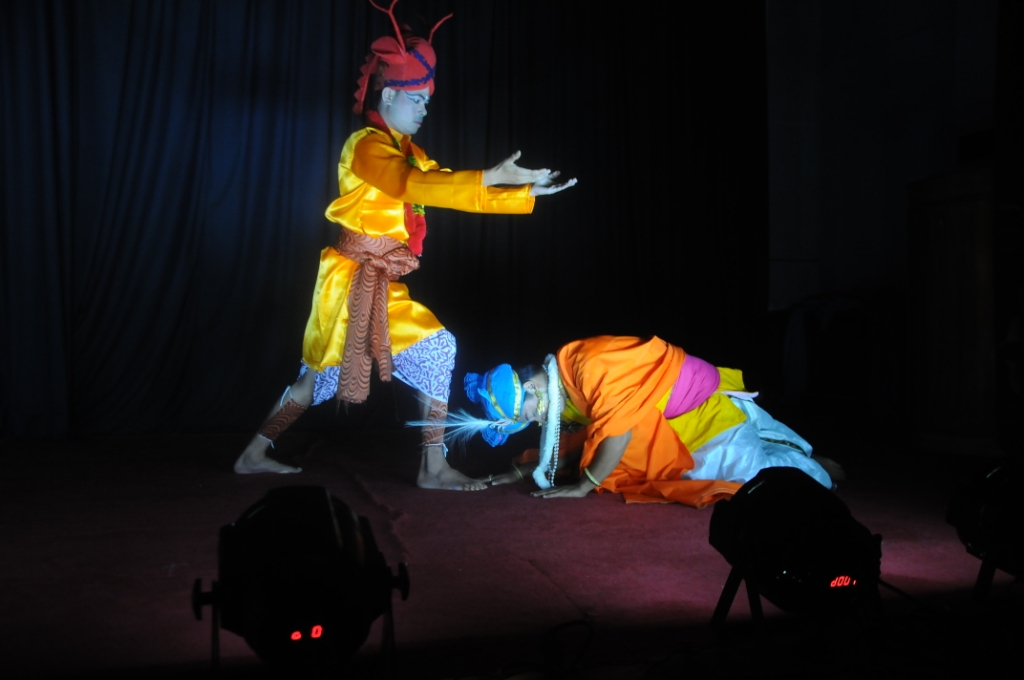 Manipur artists enact a dance-drama, the folklore of Poubi Lai snake